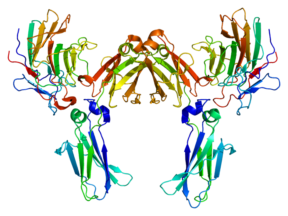 Structure of the TRIM21 protein. Based on PyMOL rendering of PDB 2iwg.